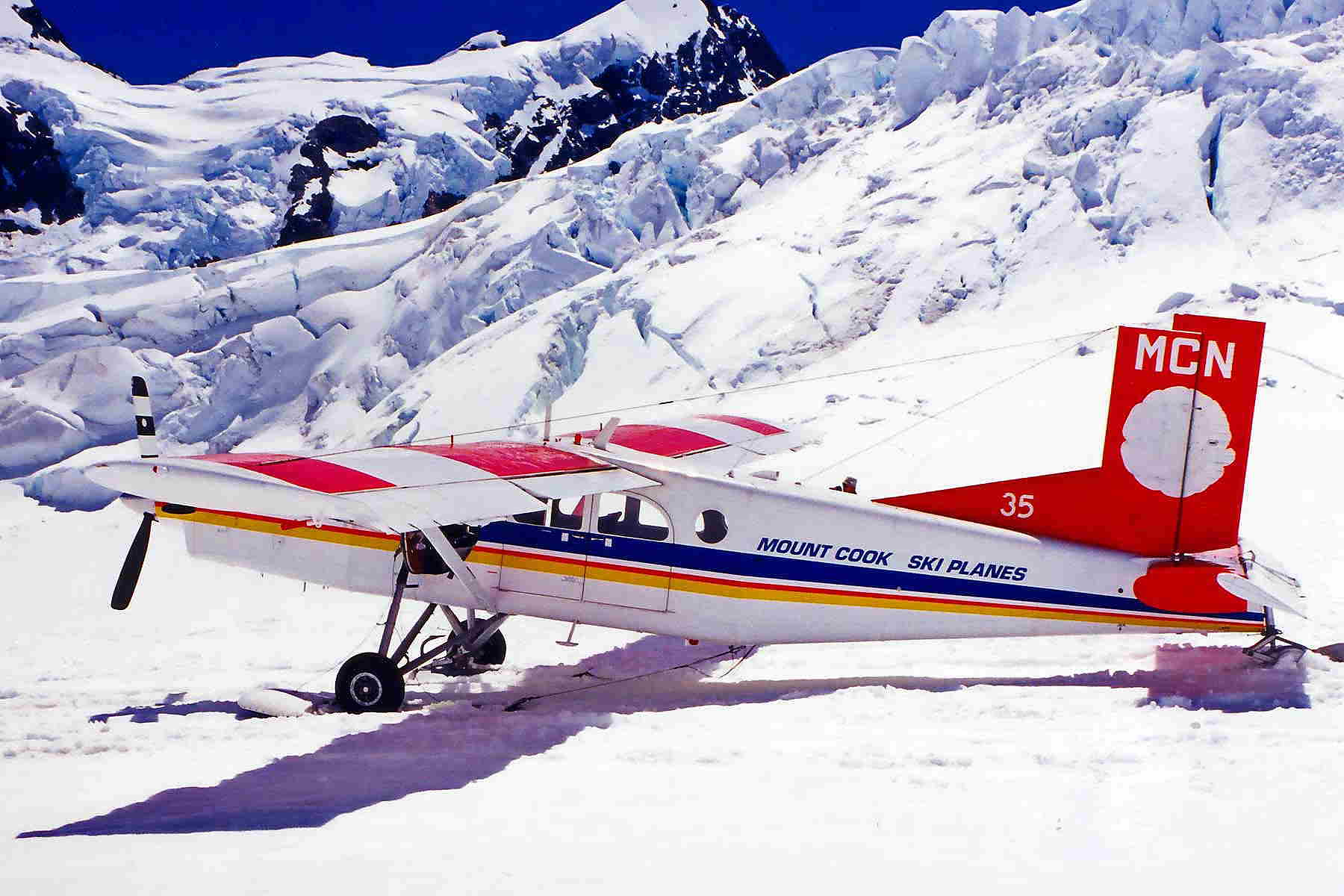 10,000 feet up at the top of the Franz Joseph Glacier. What an amazing experience! Landing on the glacier, on the day I visited it was 30C up here (the day before it was socked in with low cloud and all flights were cancelled!). The silence up there is awsome, not a bird, not even an insect.. nothing! If you ever get the chance to do this trip.. do it, it's a must!